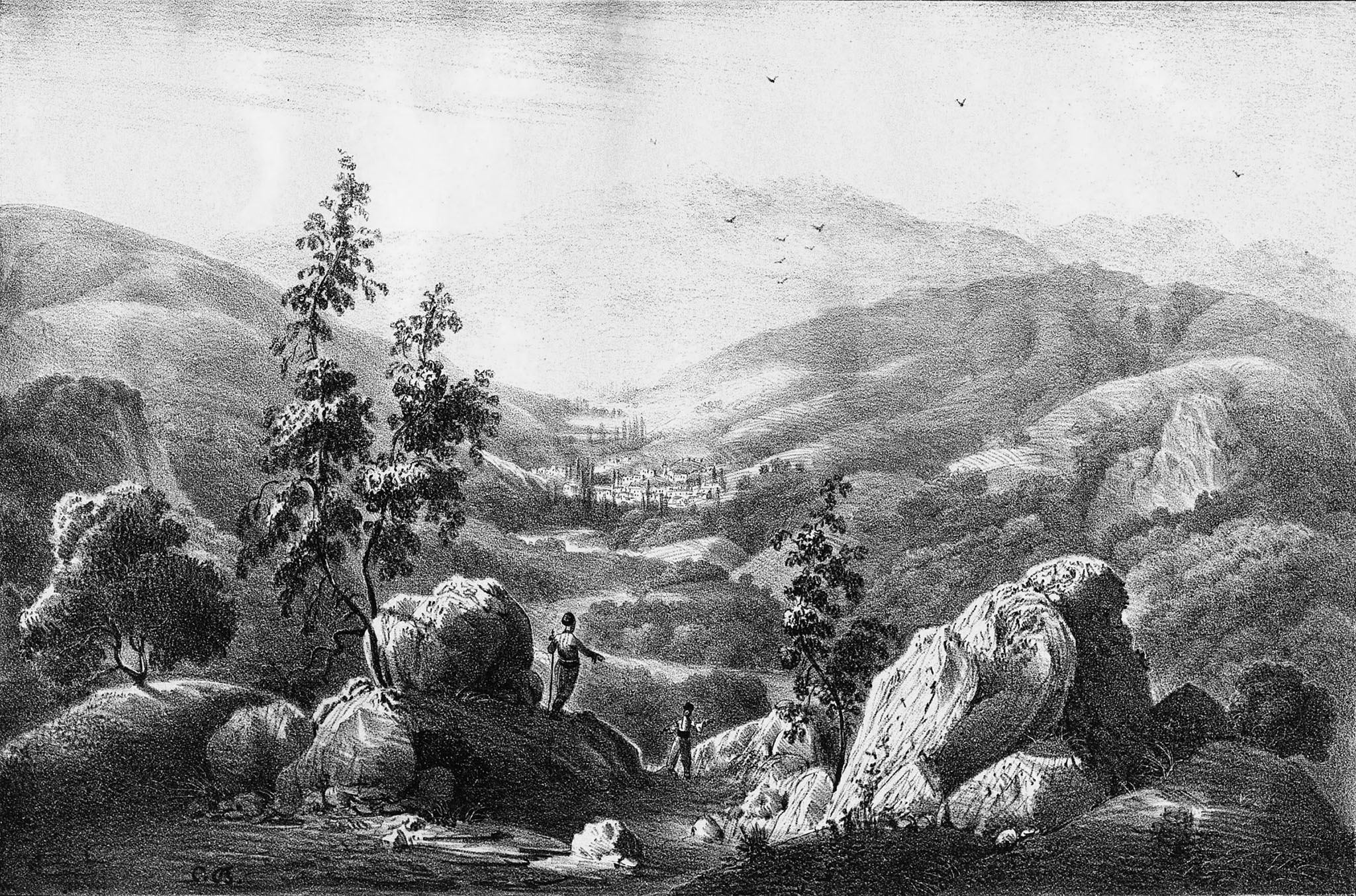 Uzenbash. From the album "24 kinds of Crimea, taken from nature and lithographed." (Carlo Bassol, 1842)